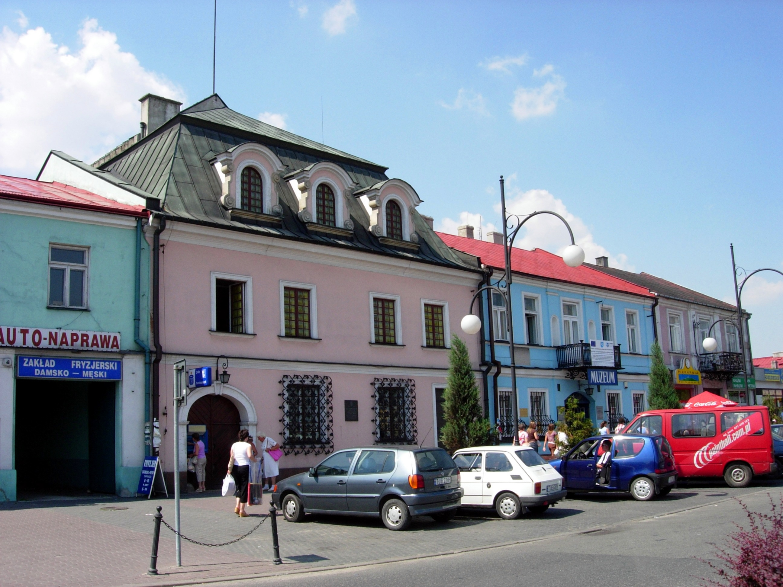 Old houses on Market Square in Jędrzejów, Poland